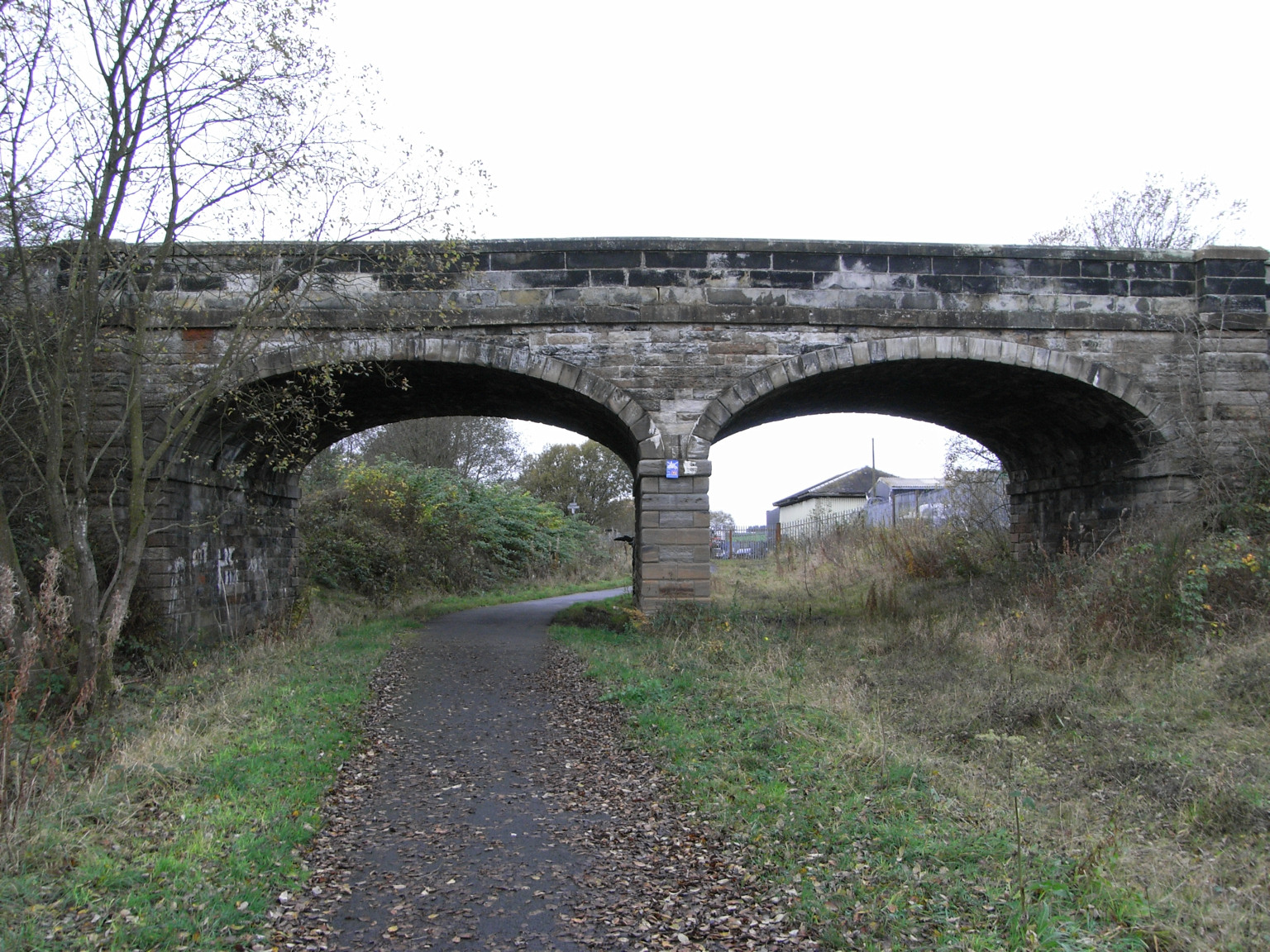 The site of Crosshouse railway station near Kilmarnock, East Ayrshire. Only the bridge and the station's good shed survive (visible through the right hand arch). Photo by Dreamer84, taken on 6 November 2007.